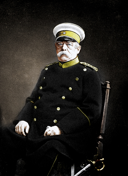 Bismarck colored